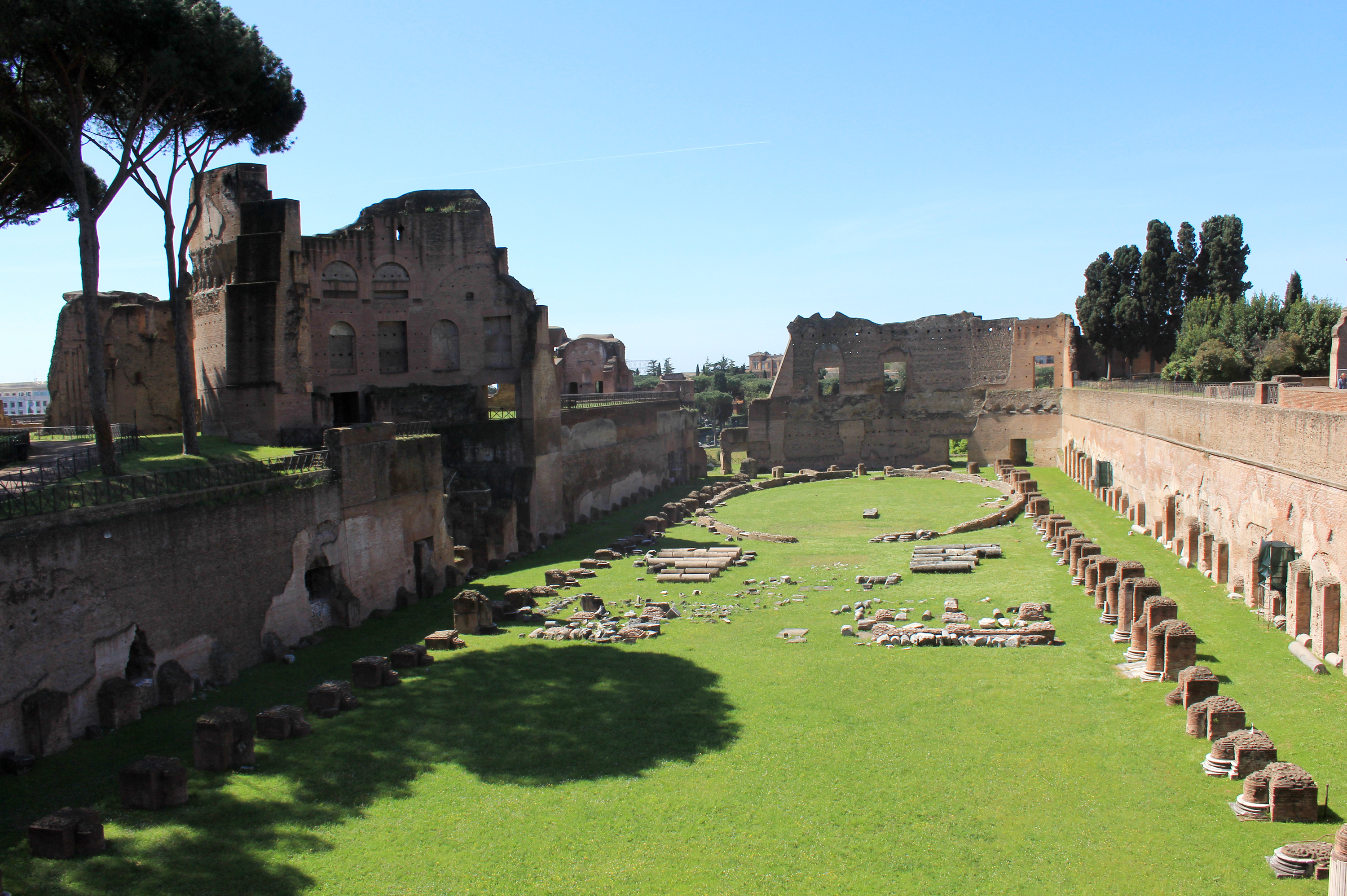 Palatine stadium on Palatine Hill , Rome, Italy